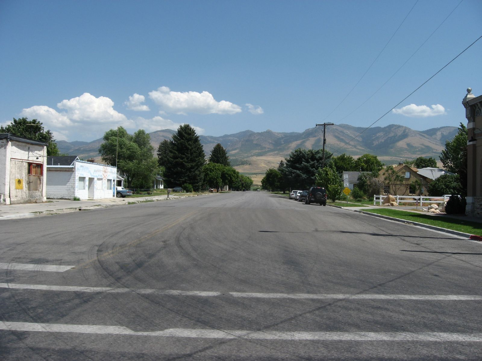 Historic Franklin, Idaho, the oldest town in Idaho.